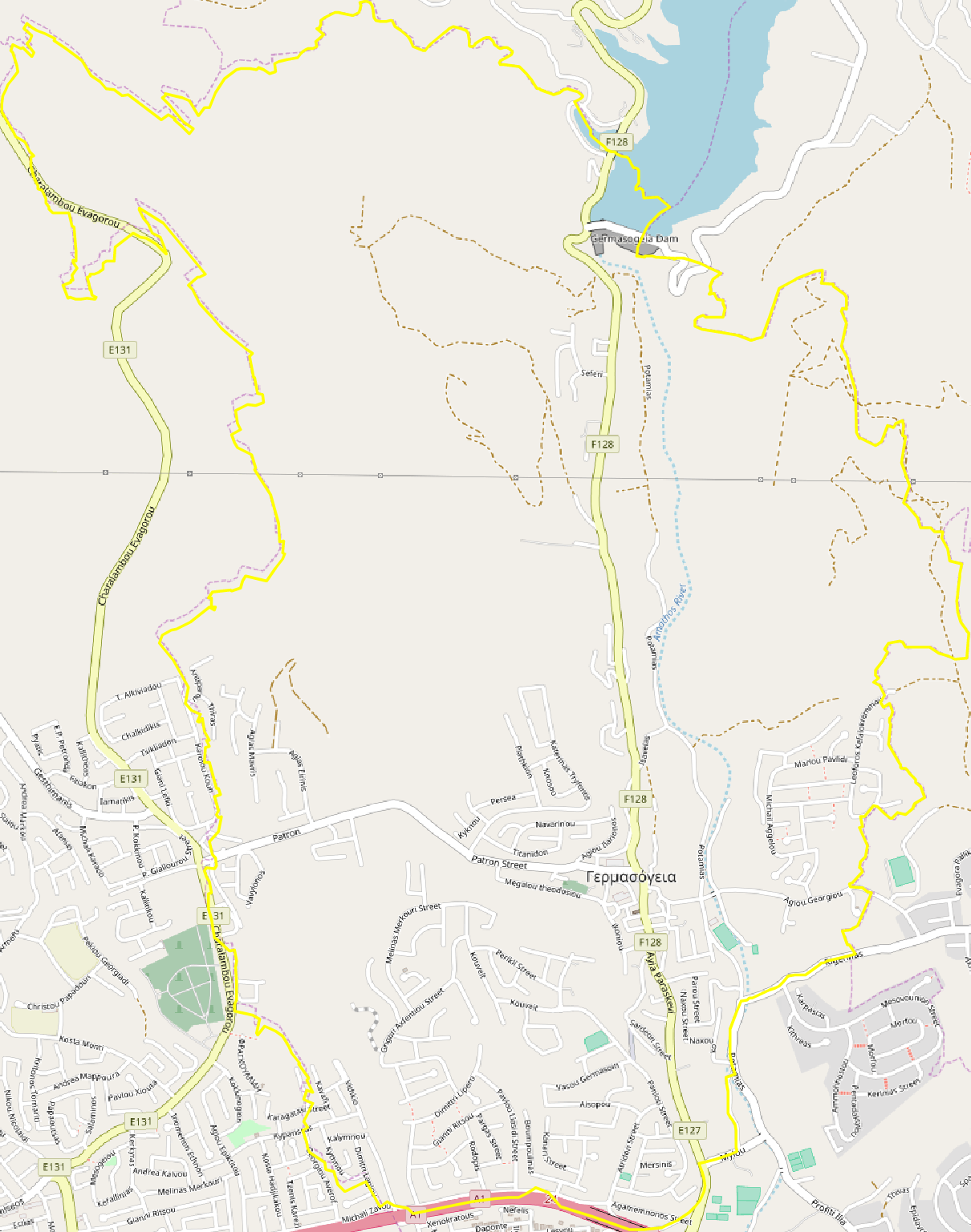 Map of Saint Paraskevi (Germasogeia).